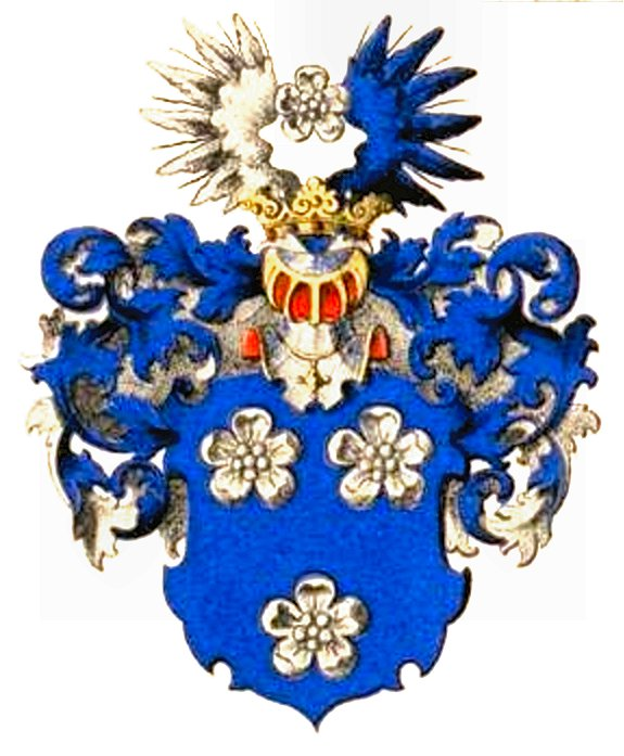 Coat of arms of Brinken family